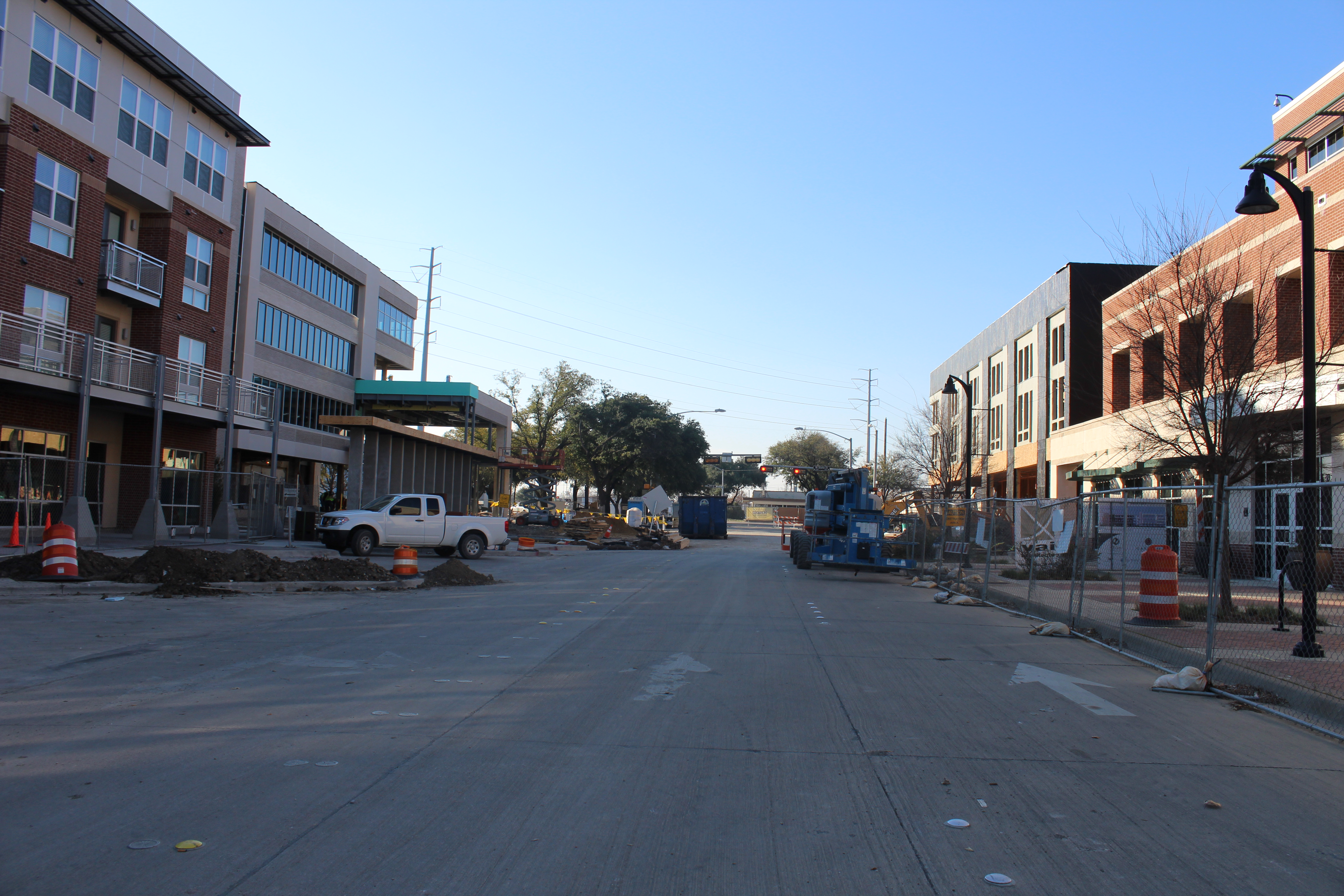 Downtown Garland construction of City Hall on the left and new apartments on the right.